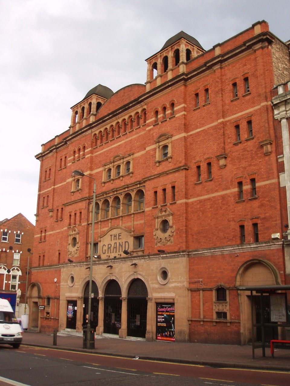 Venue just opposite Clapham Junction, which used to be a major gig venue, but is now mostly a nightclub (though it still does some music). Built as a music hall in 1900, it screened films from 1901 and became a full-time cinema in 1931. Wetherspoon's bought it in 1997 but couldn't get permission to turn it into pub (and held onto it for years). Address: 21-25 St Johns Hill. Former Name(s): Essoldo; Grand Theatre; Grand Theatre of Varieties; The New Grand Theatre of Varieties. Owner: (website); Mean Fiddler (former). Links: Cinema Treasures